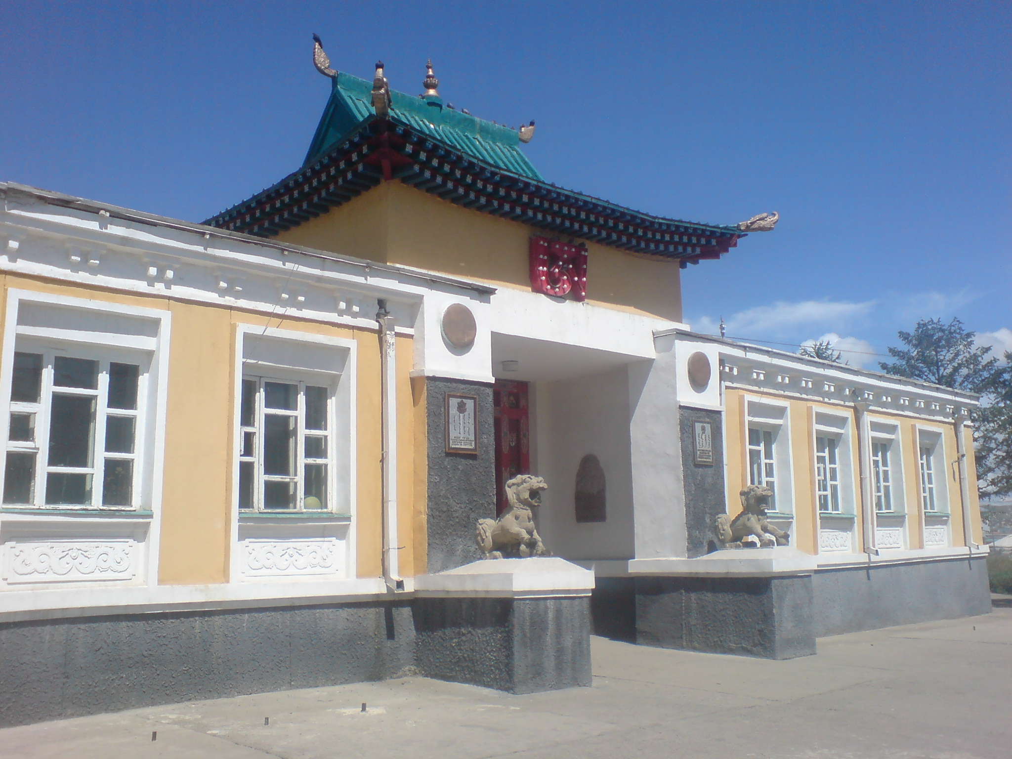 Zanabazar Buddhist University in Ulan Bator, Mongolia